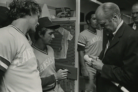 The photo contact sheet, identified as B0656 by the White House Photographic Office (WHPO), is housed at the Gerald R. Ford Presidential Library, a branch of the National Archives and Records Administration (NARA). This file is a 200 dpi photo contact sheet having images from roll of film B0656 of the August 9, 1974 - January 20, 1977 Gerald R. Ford White House Photographic Office Series A0001-A9999 and B0001-B2886 photographs. The date on the photo contact sheet is the date the roll of film was processed, not necessarily the date the photographs were taken. See table below for additional details.